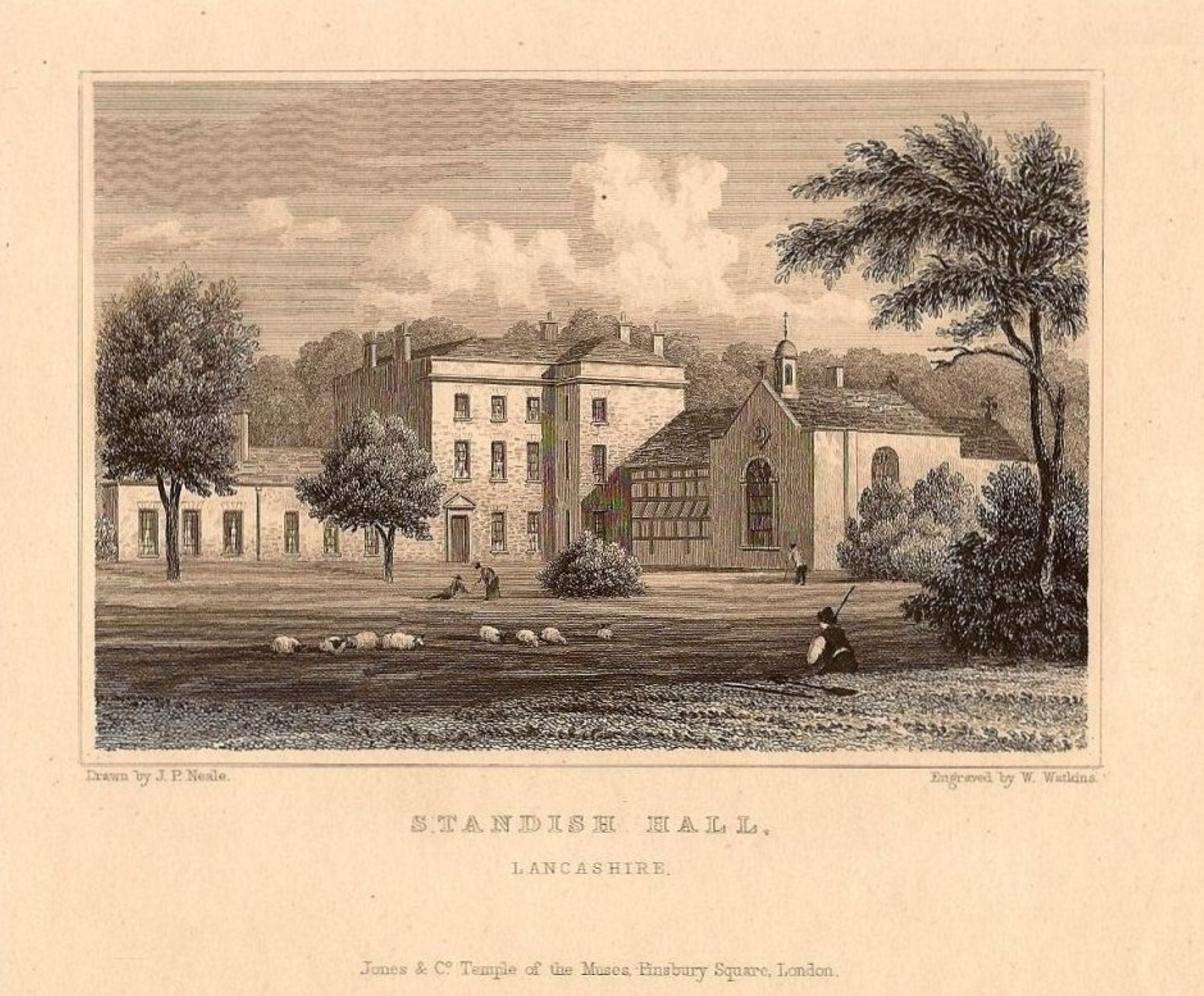 Drawing of Standish Hall, Lancashire, by John Preston Neale, engraved by W. Watkins. Published in 1847 by Jones and Co, Temple of Muses, Finsbury Square, London, in « The Mansions of England or Picturesque Delineations of the Seats of Noblemen and Gentlemen ».